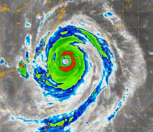 Satellite cloud picture of Typhoon Talim. The average wind speed was :en:convert|115|kn|km/h mph , the central lowest barometric pressure was approximately :en:convert|92700|Pa|psi . 08/31/05 0600Z 13W TALIM 08/31/05 1155Z GOES-9 IR